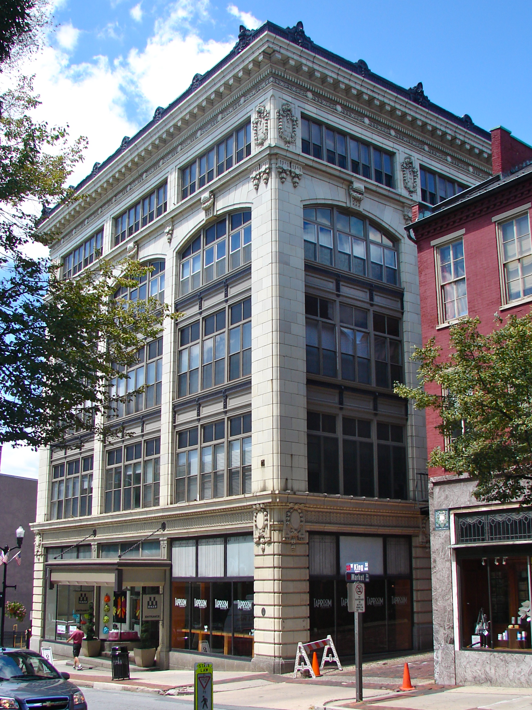 Hager Building on the NRHP since October 16, 1979. At 25 West King Street, in the Central Business District (right by the Central Market building) in Lancaster, Pennsylvania.